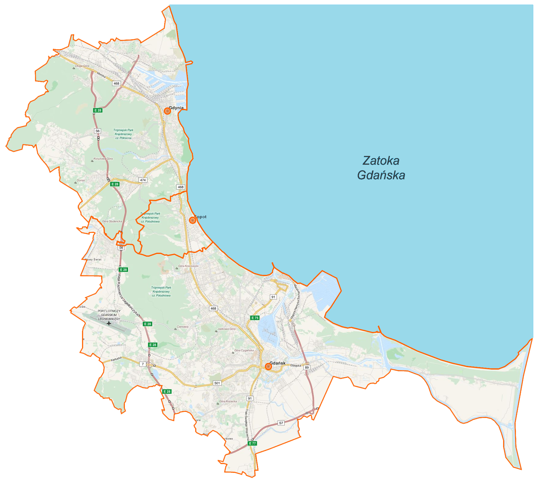 Map of Trójmiasto This map of Trójmiasto was created from OpenStreetMap project data, collected by the community. This map may be incomplete, and may contain errors. Don't rely solely on it for navigation.